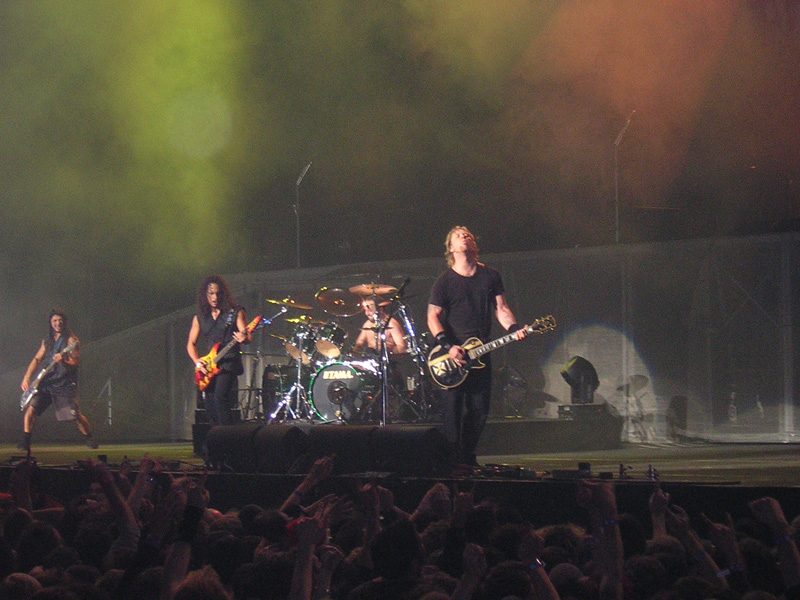 "I took this photo at Metallica's show in London's Earl's Court 19 December 2003."